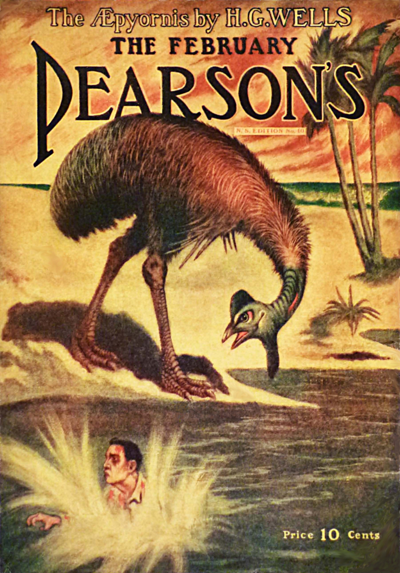 H.G. Wells' short story "Æpyornis Island", published in Pearson's Magazine; February 1905. Illustration by Wallace Blanchard.